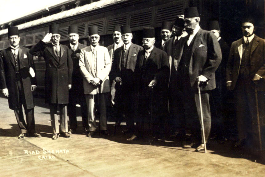 From right to left Ali Al Shamsy Bek, Adli Yekn Pasha, Mohamed Naguib Pasha Al Gharabli, Hussein Rushdi Pasha, behind him, Mohamed Mahmoud Pasha, Tharwat Pasha, Fathallah Barakat Pasha, behind him Uthman Muharram Bek, Murkus Hanna Pasha, director of the Aswan Digoi Mahmoud Shaker Mohammed Bek Ministry of Communications Assistant.